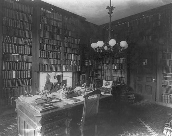 United States Secretary of the Navy George Bancroft.